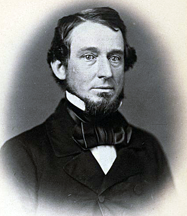 Linus B. Comins, US Representative from Massachusetts